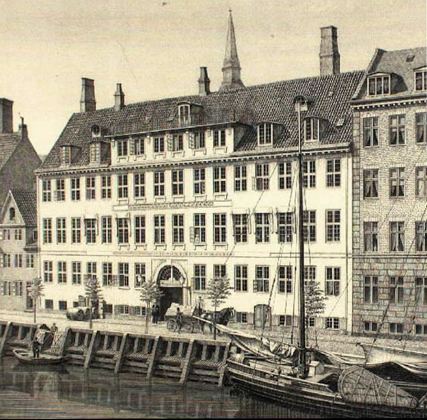 Drawing of Heerings Gård in Christianshavn, Copenahgen, Denmark